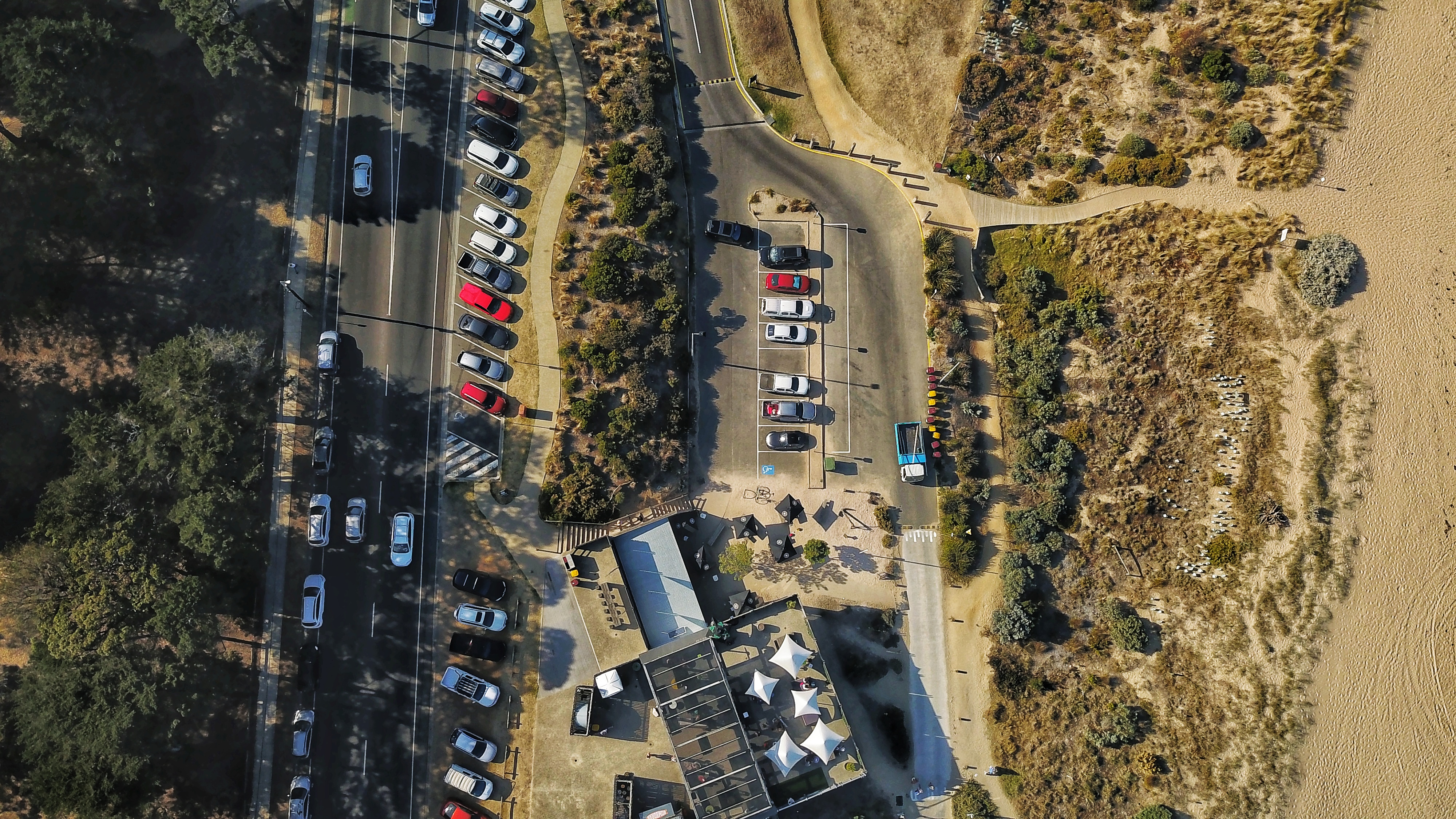 Aerial perspective of the Salty Dog Cafe at Torquay. March 2019.